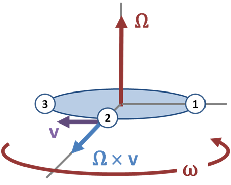 Vectors to determine Coriolis force